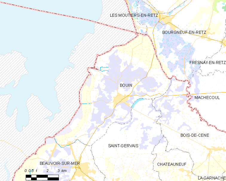 Map of French municipality Bouin